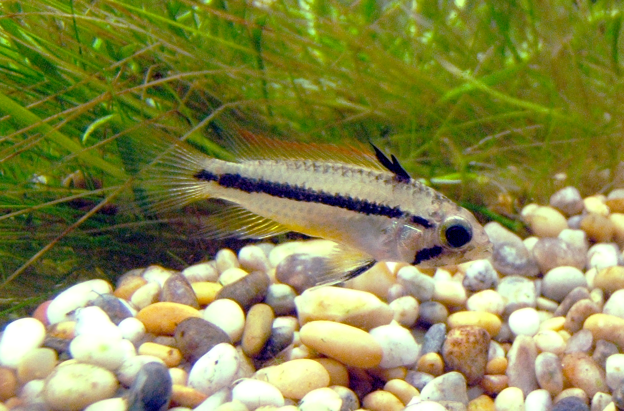 Female juvenile Apistogramma Cacatuoides